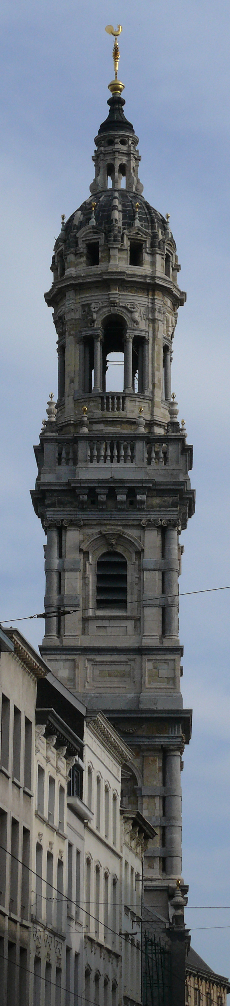 The Church of Carolus Borromeus (Carolus Borromeuskerk) at the Hendrik Conscienceplein in Antwerp, is a former Jesuit Church in baroque style. The church was designed by fathers Franciscus de Aguilon s.j. and Pieter Huyssens s.j. The church was bult between 1615 and 1521. First dedicated to Ignatius de Loyola, then in 1773, after the suppression of the Jesuit Order, renamed to the church of Charles Borromeo. Since 1803 it has been a parish church. The church is a typical product of the Counter-Reformation in which the Catholic Church tried to regain the confidence of the people with much pomp. The Jesuits were the spearhead of this movement. The facade of the church is inspired by Serlio's books on Architecture. The Church boasted numerous paintings and ceiling paintings by Rubens which were unfortunately destroyued during a fire in 1718. After the fire the church was given a more sober interior.